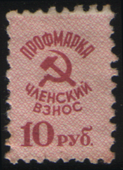 Trade-union stamp of the USSR, 10 rub. 1944